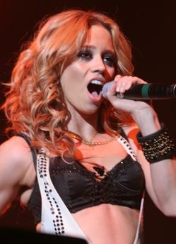 Kimberly Wyatt performed at Jingle Bell Bash 9 at the Tacoma Dome for KISS 106.1